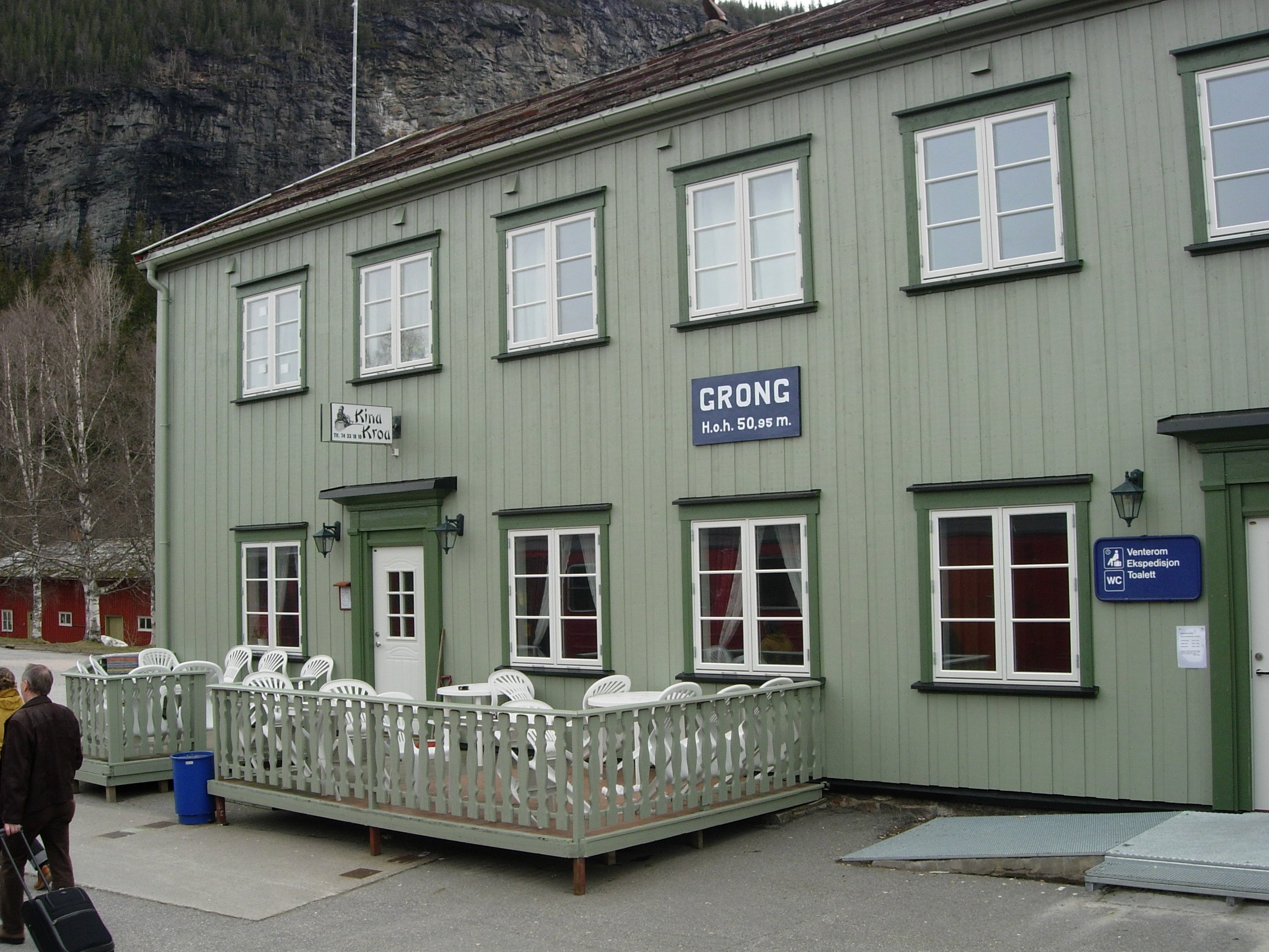 Grong station on Nordlandsbanen, Norway